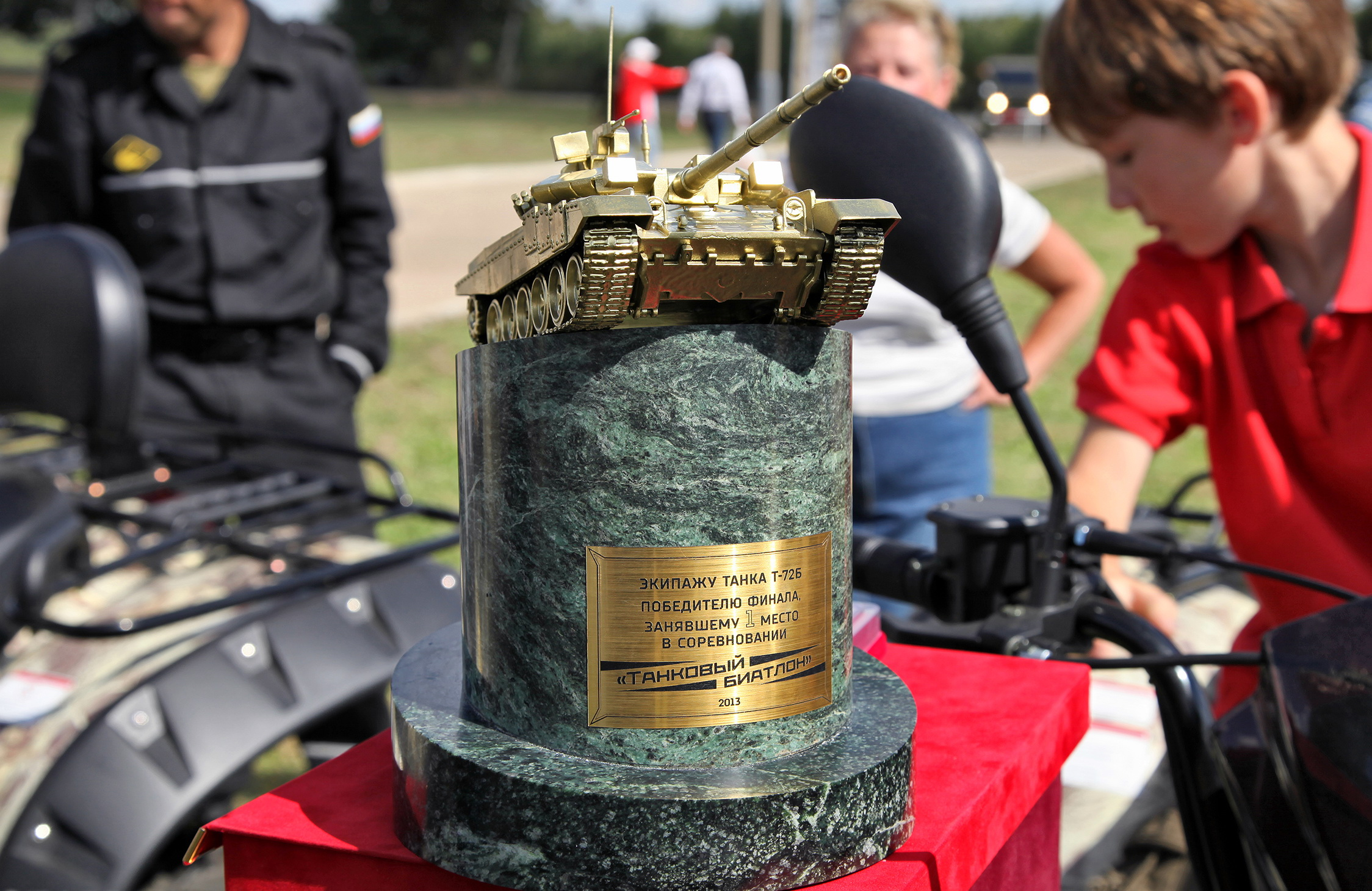 Award winner.